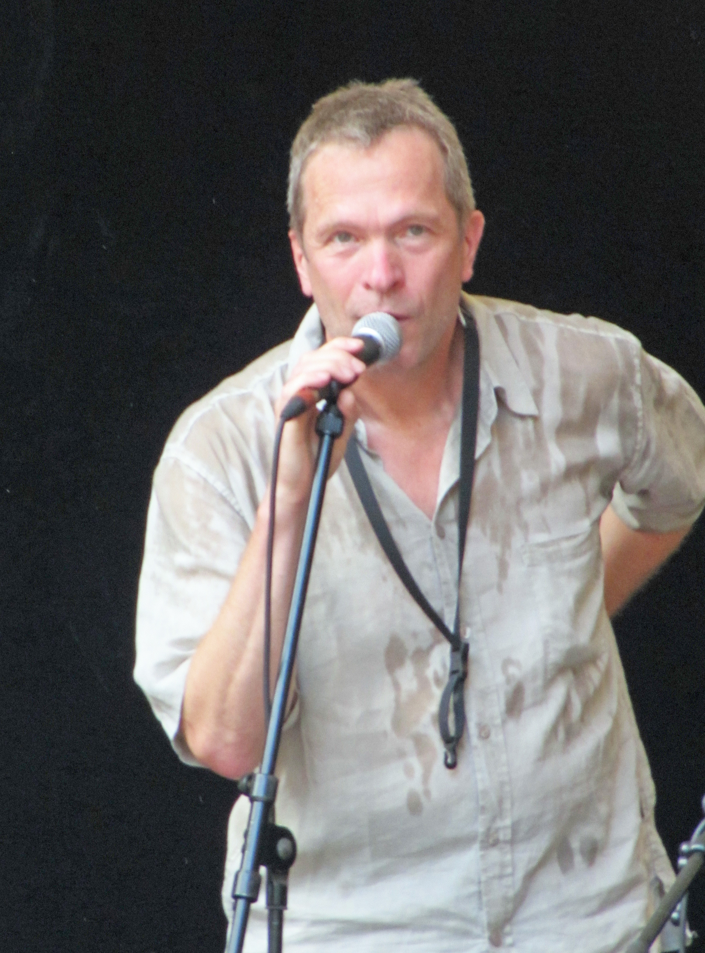 Christof Lauer (with Patrice Heral and Michel Godard), 2010 in Frankfurt am Main, at garden of "Liebieghaus" (museum), Germany